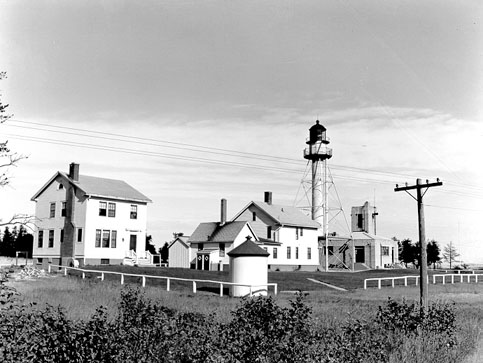 The Whitefish Point Lighthouse, on Lake Superior in Michigan, United States is listed on the US National Register of Historic Places (NRHP).